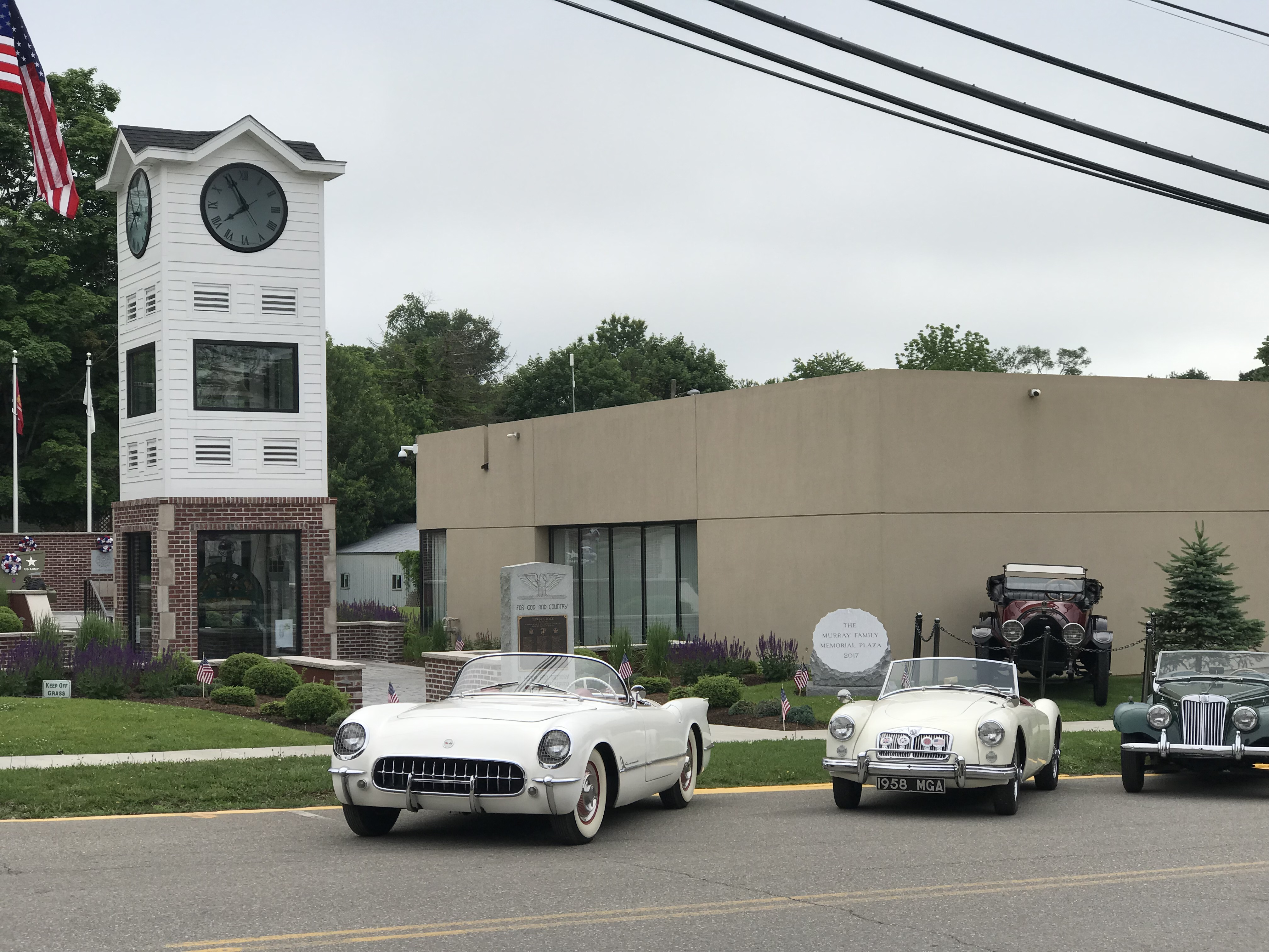 Picture of the Murray Family Memorial plazza and municiple building in downtown Bethesda.